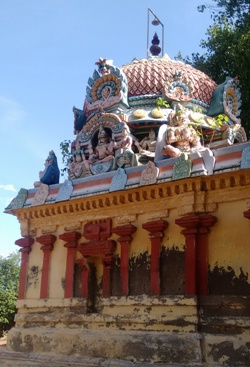 Thanjavurlakshminarayanaperumaltemple தஞ்சாவூர்லட்சுமிநாராயணபெருமாள் கோயில்